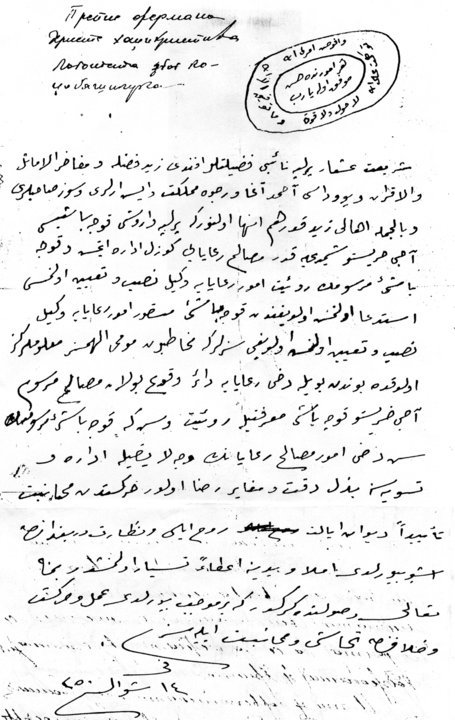 Firman of Hristo Logotet